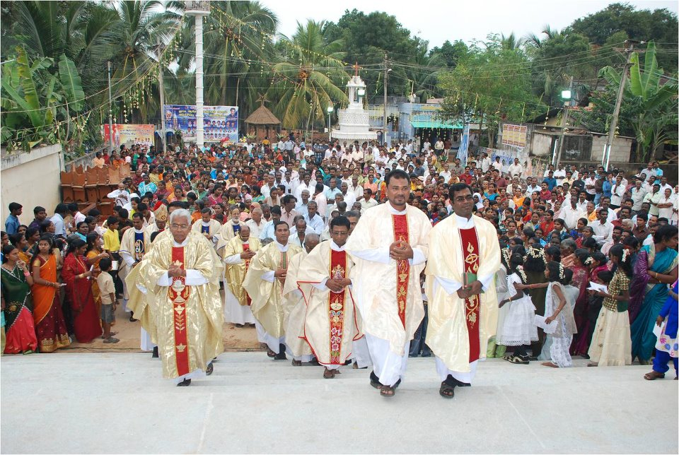 This photo is Arockiapuram St.Roch church Ordination 2010